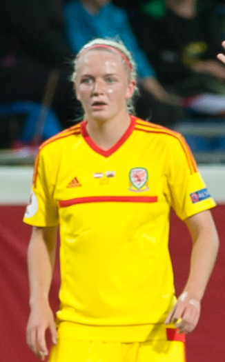 Women's Euro Qualification Austria vs. Wales, 2015-09-22, St. Pölten, Lower Austria